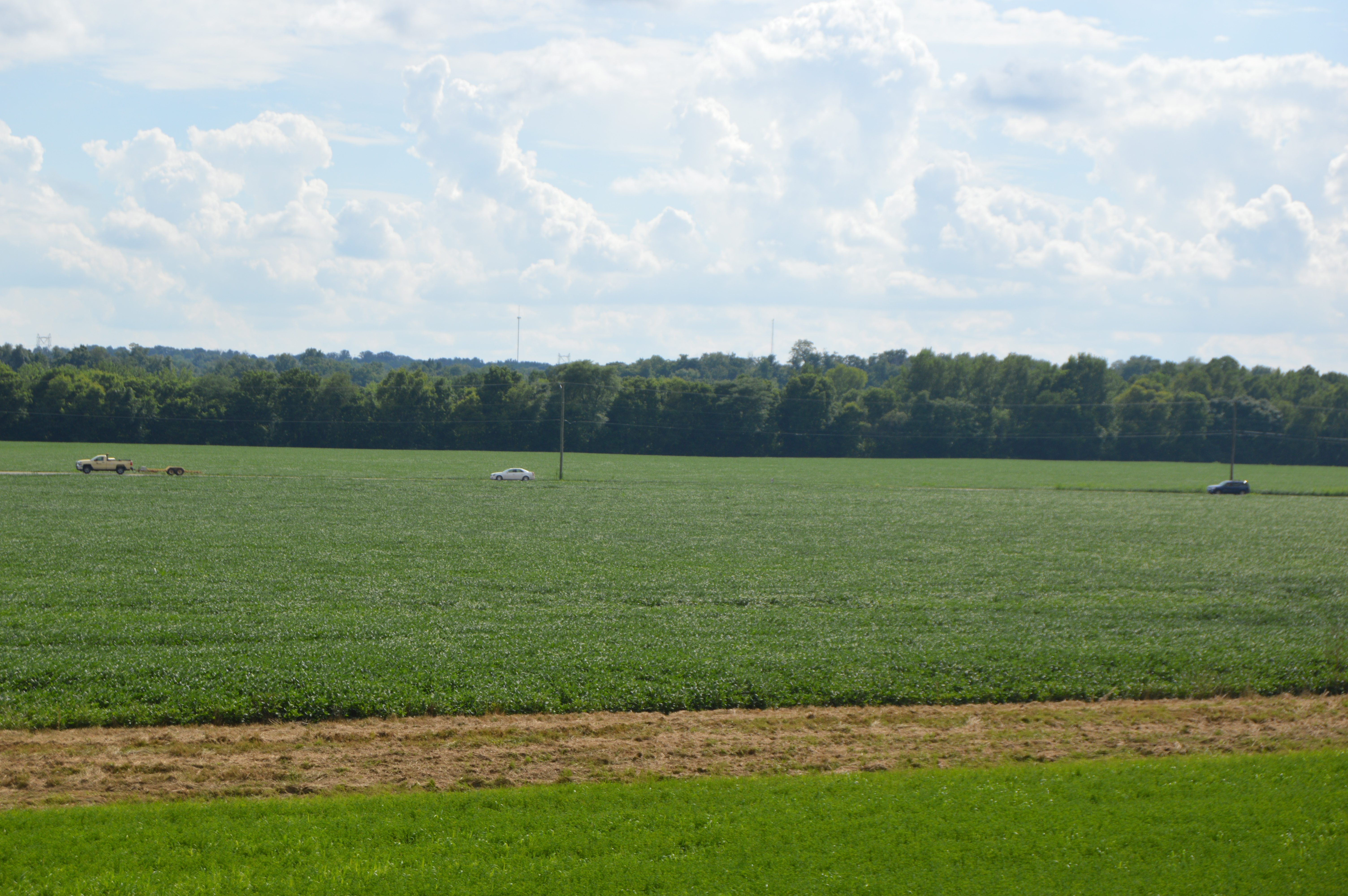 Soybean fields along State Route 37 from the Evans Foundation Bike Trail, northwest of Alexandria, in St. Albans Township, Licking County, Ohio, United States.